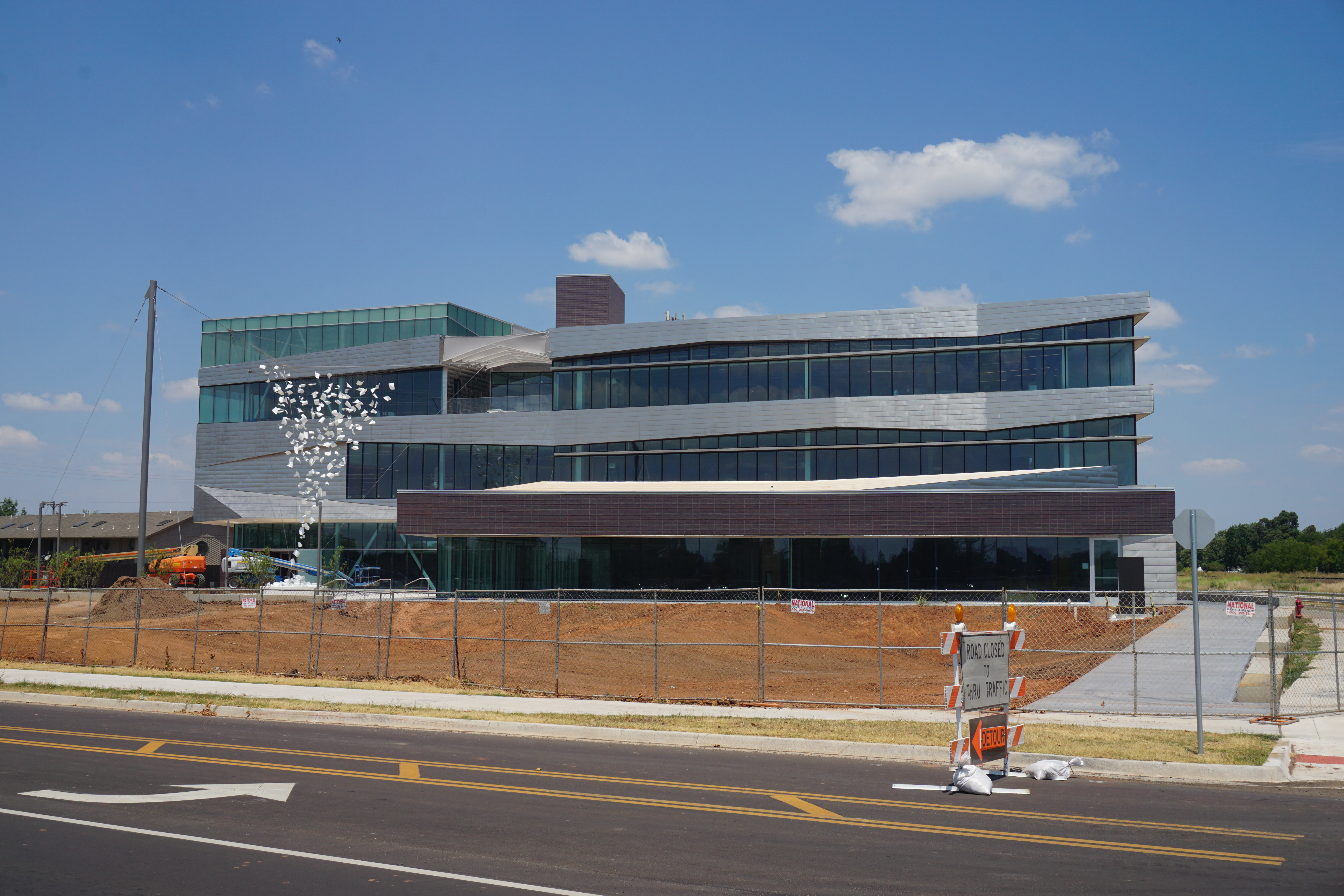 Norman Public Library Central (under construction) in Norman, Oklahoma (United States).